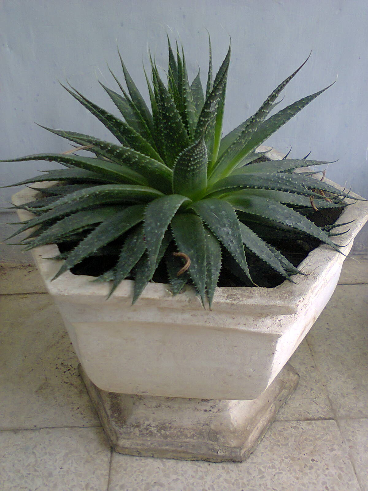 One of my collection. From Indonesia.